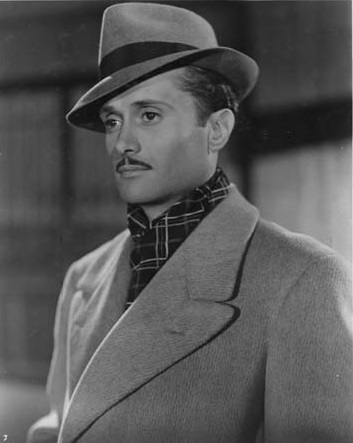 Esteban Serrador-actor argentino